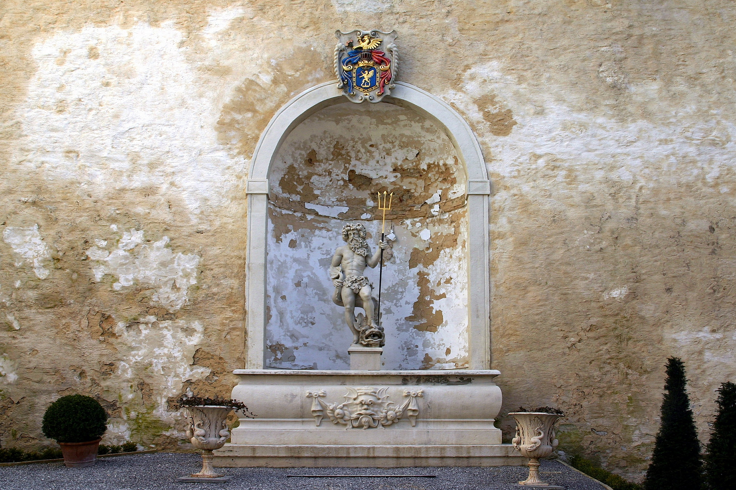 Forchtenstein Castle - Forchtenstein Object location47° 42′ 35.05″ N, 16° 19′ 54.08″ E